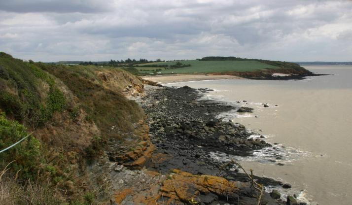 Brittany landscape. The atlantic coast near La Baule.